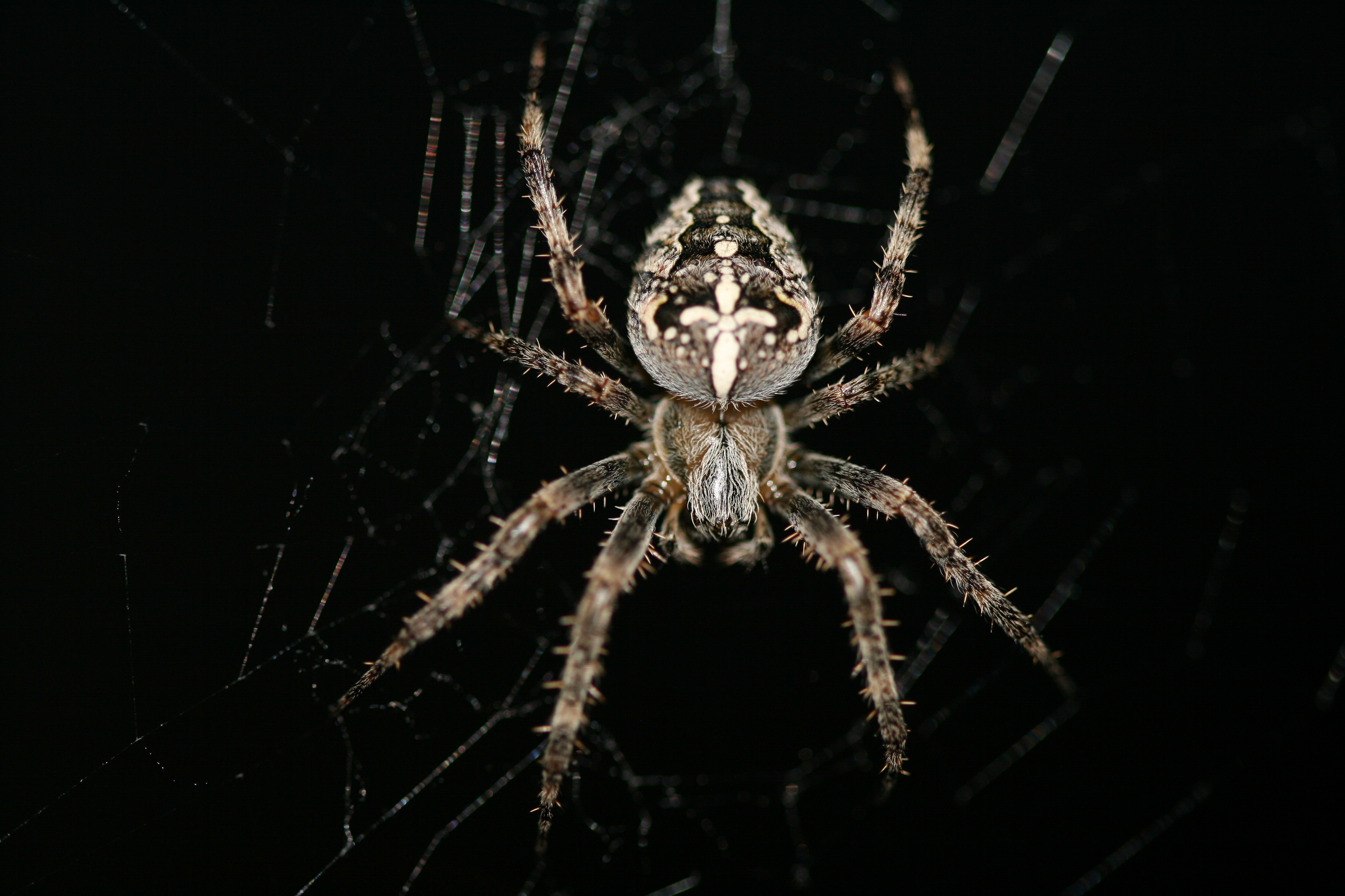 Araneus diadematus Cross spider